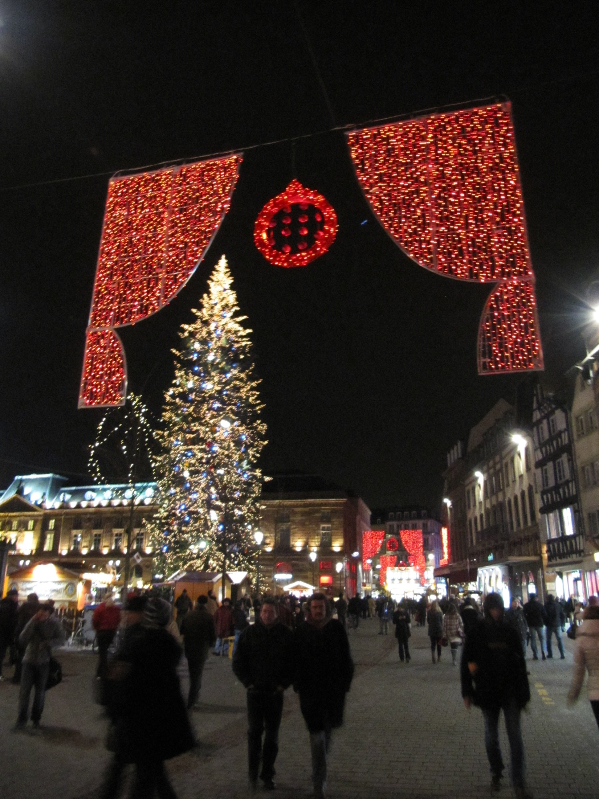 Christmas market, Strasbourg